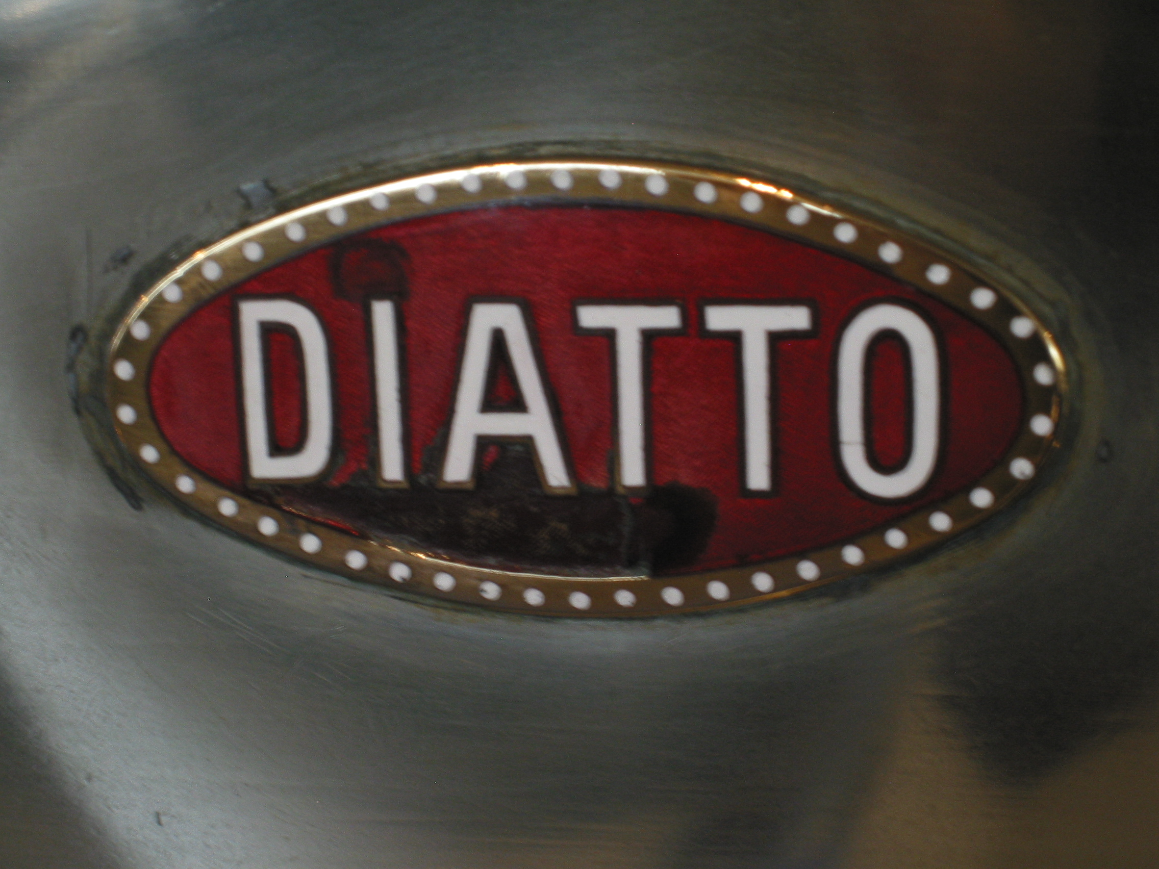 Emblem Diatto